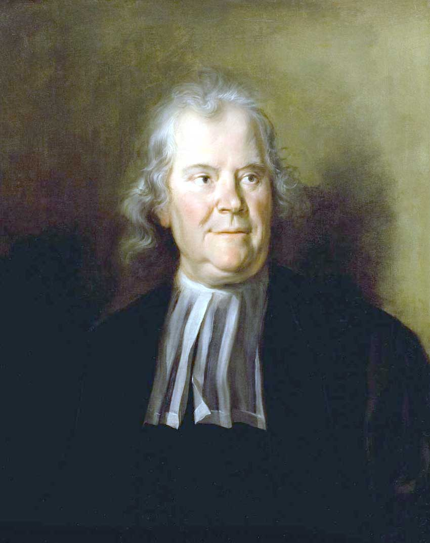 Herman Boerhaave (1668-1738) Dutch humanist and physician